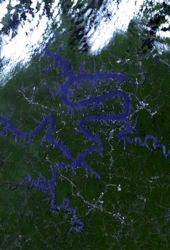 Lake of the Ozarks in central Missouri. The raw satellite imagery shown in these images was obtain from NASA and/or the US Geological Survey. Post-processing and production by